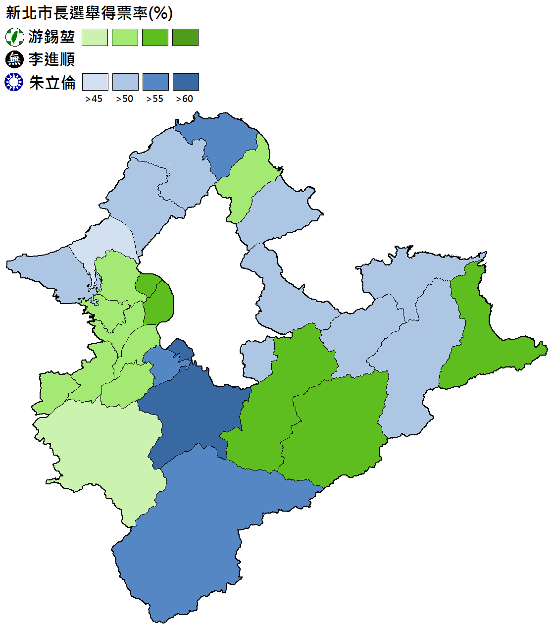 Xinbei 2014